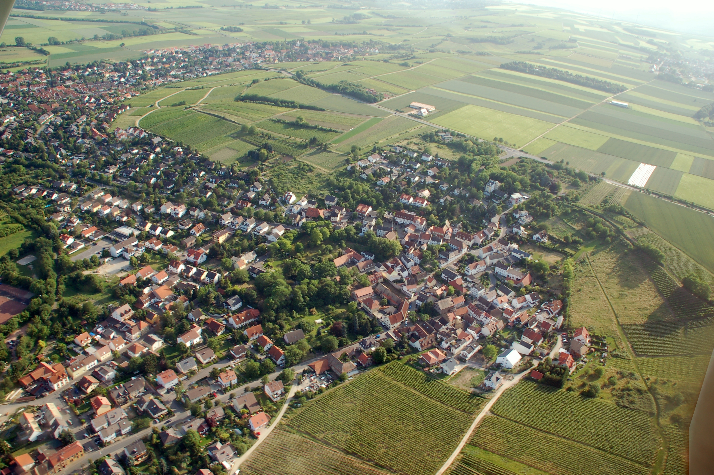 Aerial photograph of Gau-Bischofsheim, Rhineland-Palatinate, Germany